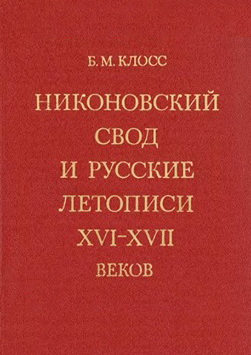 The Nikon Chronicle and other Russian Chronicles of the 16-17 centuries (Russian: Никоновский свод и русские летописи XVI-XVII веков) by Boris Kloss